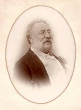 Ephraim Zox MLA, circa 1880